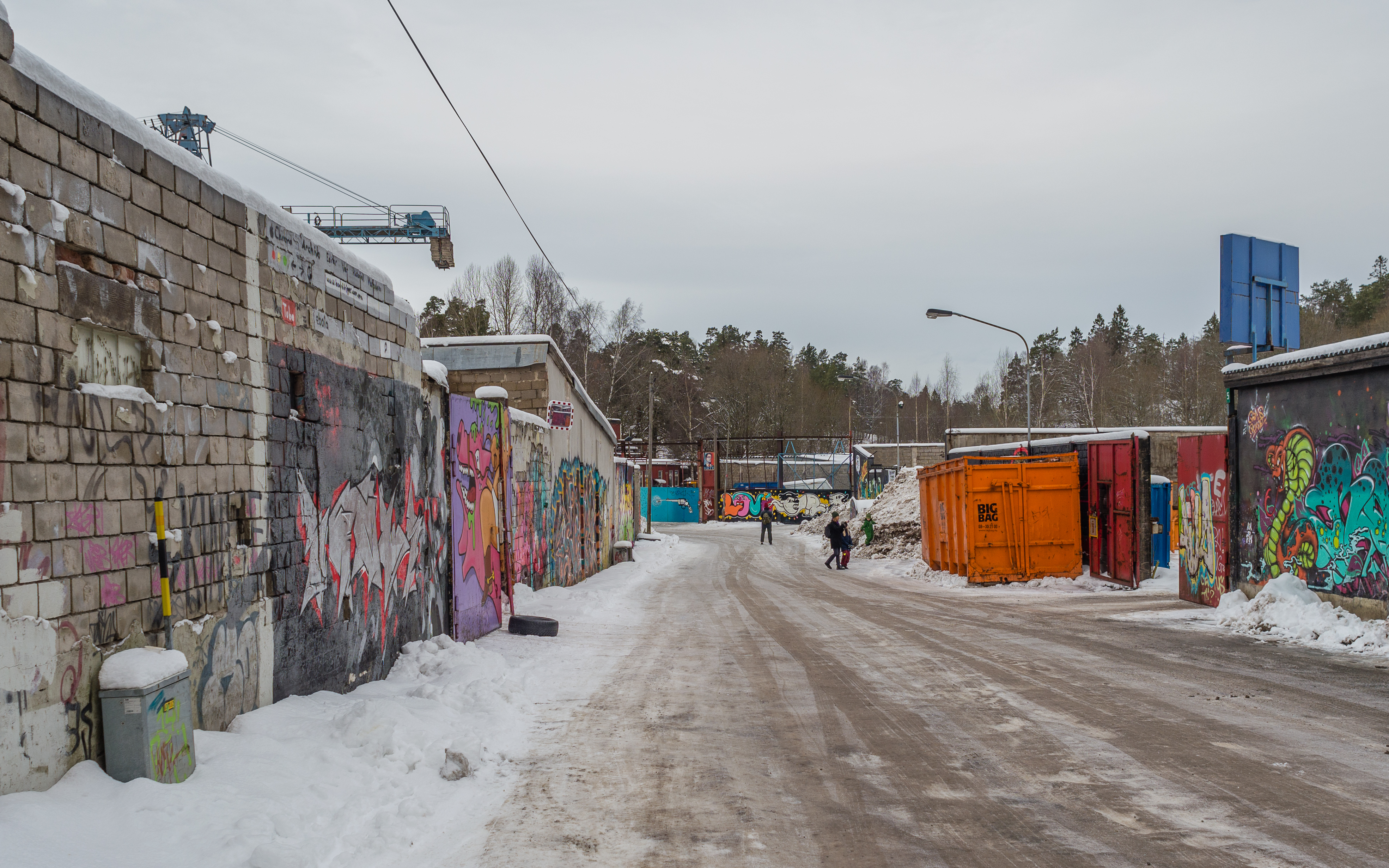 Snösätra is a an old industrial area from the fifties outside Stockholm. Many buildings are abandoned or in very poor condition,The area (with permission from several property owners) has become a center for street art.